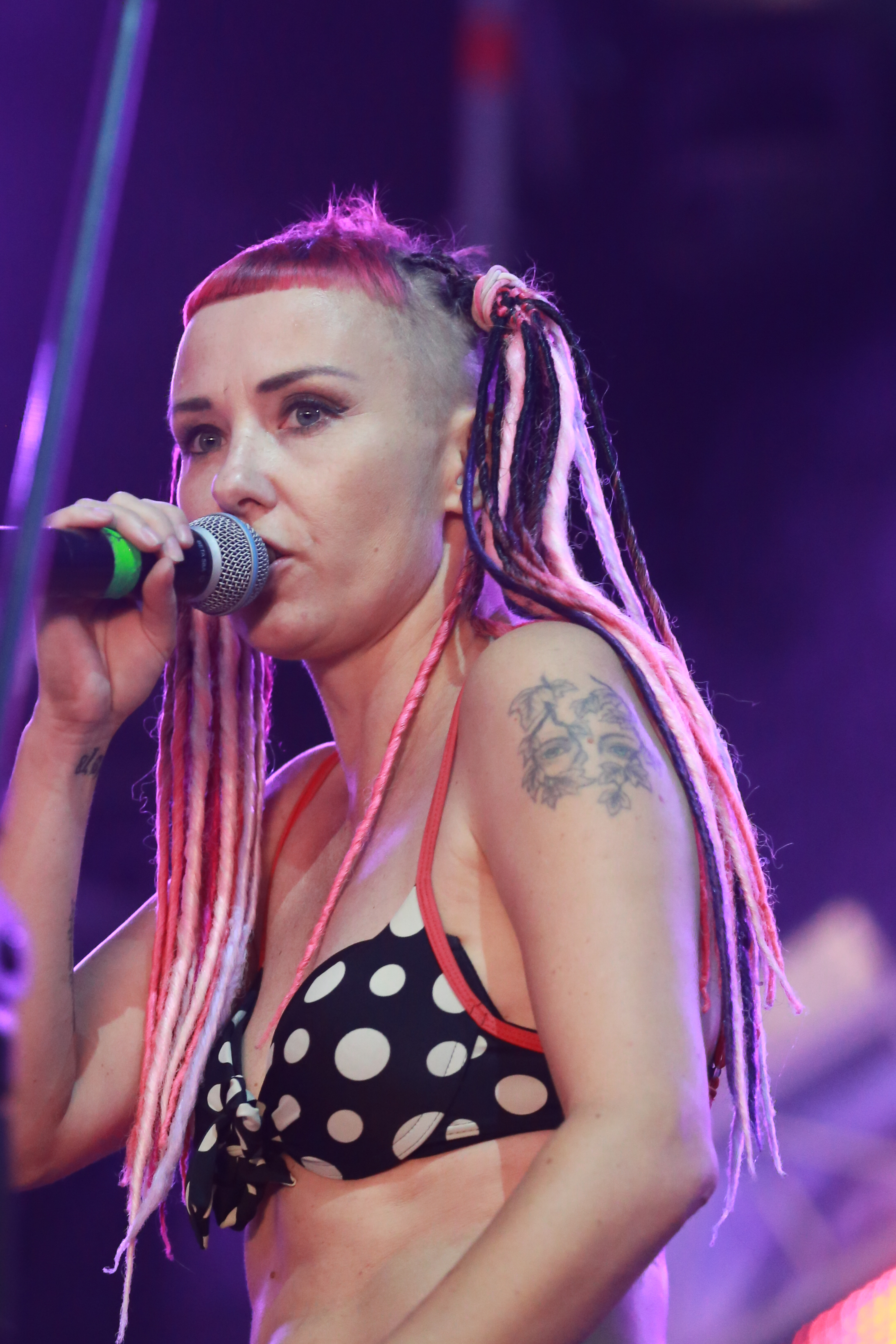 Pol'and'Rock Festival in 2018.